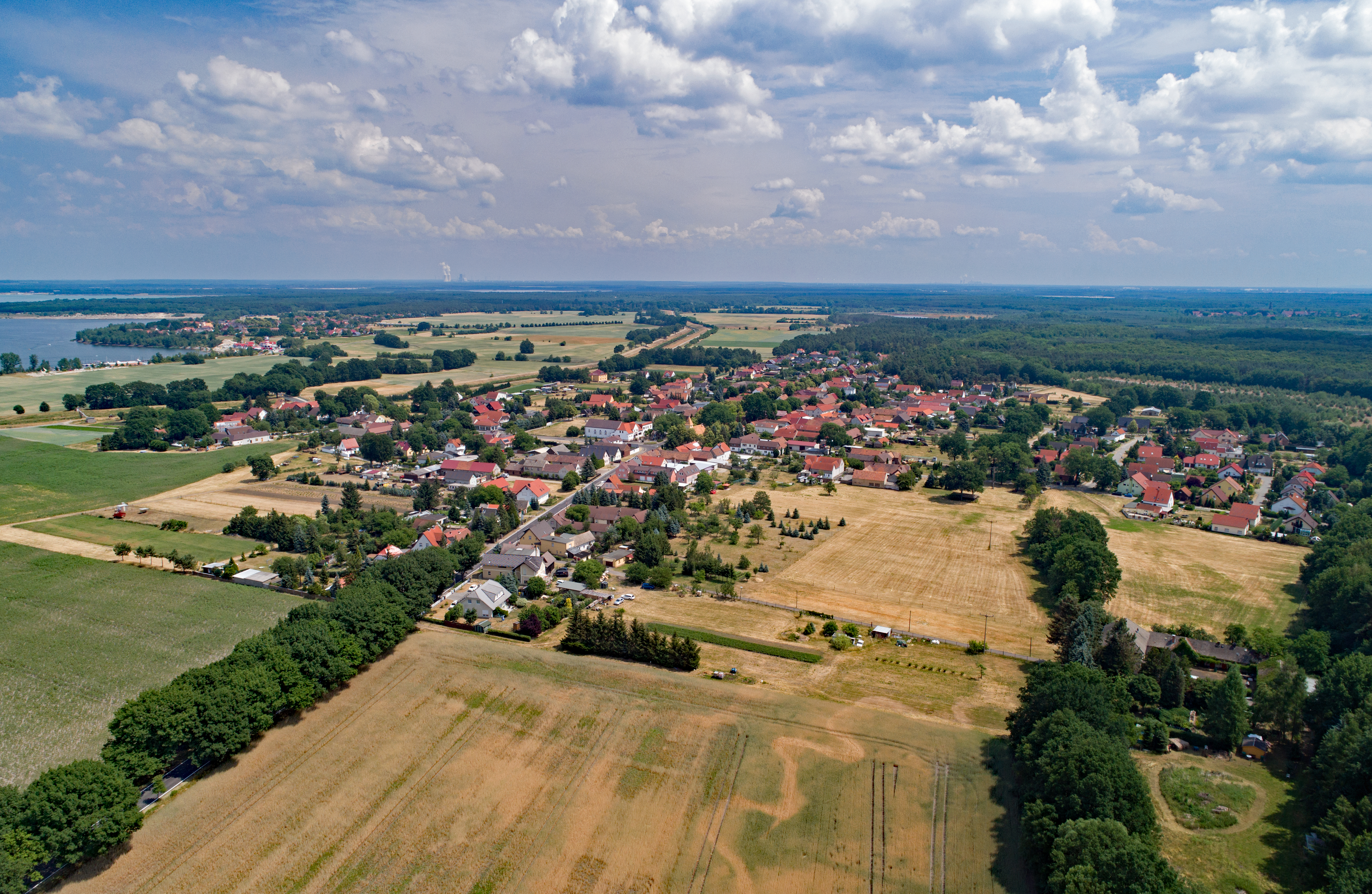 Tätzschwitz (Elsterheide, Saxony, Germany) Hornjoserbsce: Powětrowy wobraz Ptačec